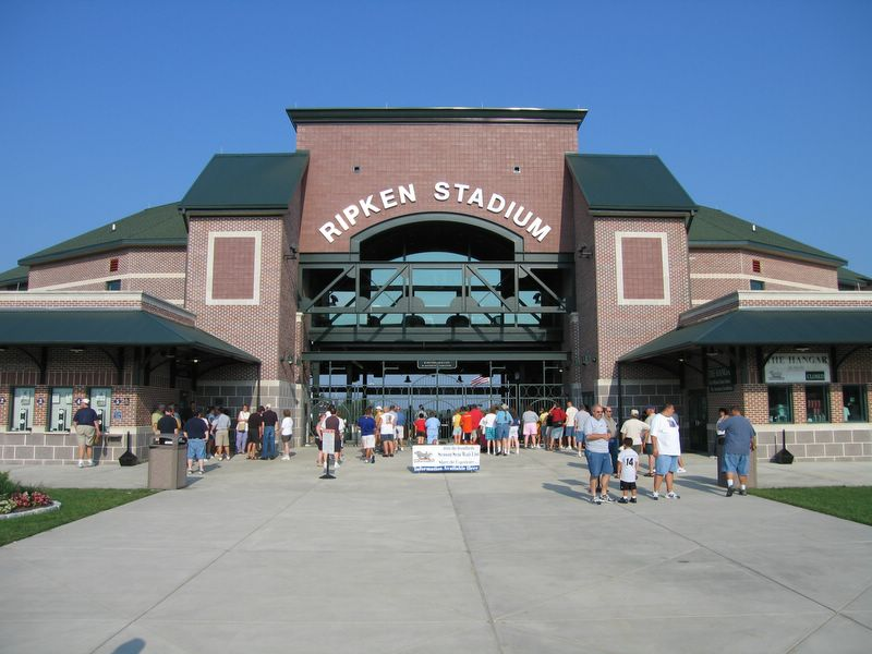 An image of the main entrance of Ripken Stadium taken on July 26, 2005.